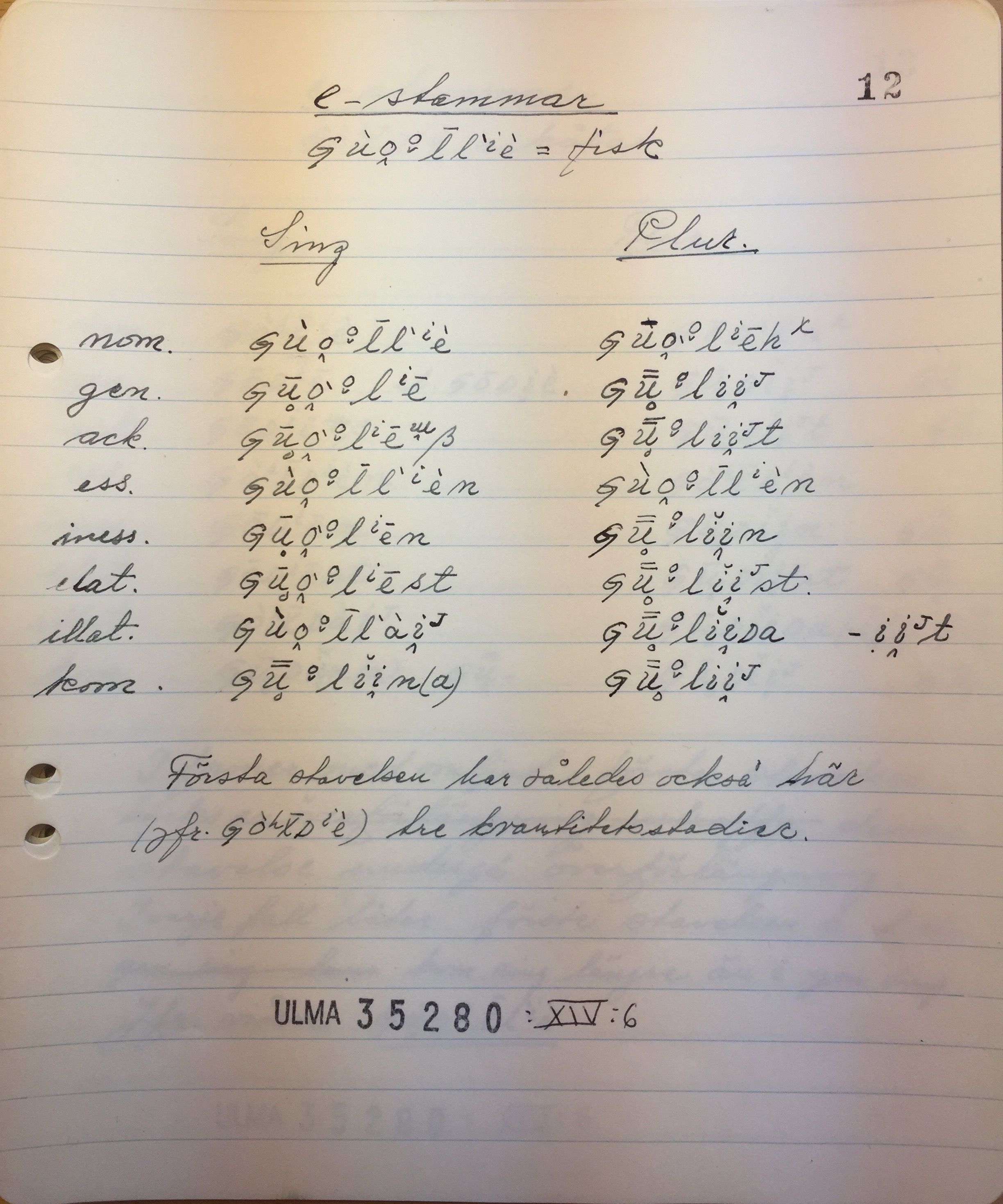 the noun paradigm for guolle, the Pite Saami word for fish; by Israel Ruong, archived at Institutet för språk och folkminnen in Uppsala, Sweden; from accession number: ULMA 35280:XIV:6, sheet 12